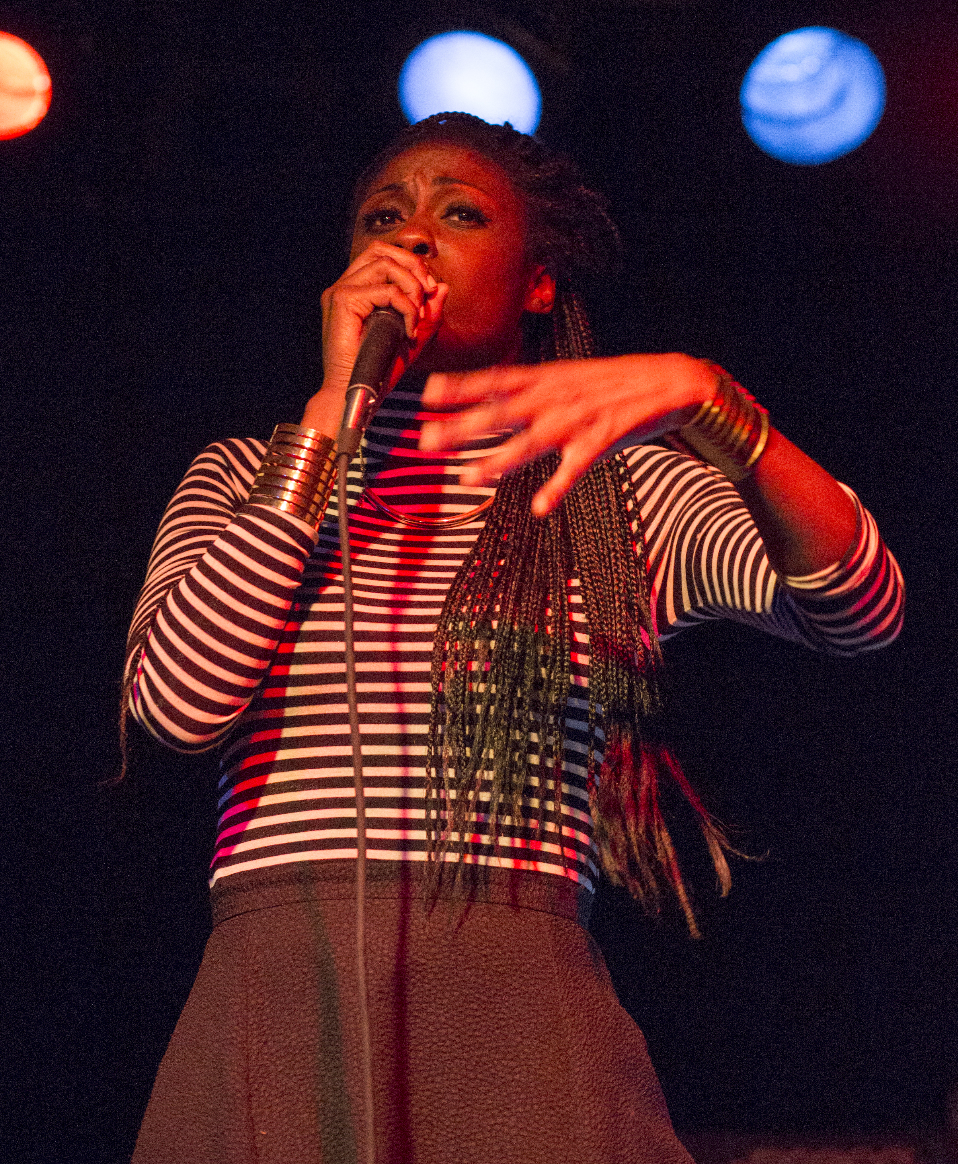 Sammus performing live at The Haunt, Ithaca, NY, February 21 2015. Photo by Benjamin Torrey.